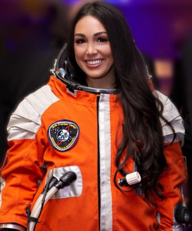 Portrait of Kellie Gerardi, microgravity researcher and Scientist-Astronaut Candidate, in her Final Frontier Design IVA spacesuit.